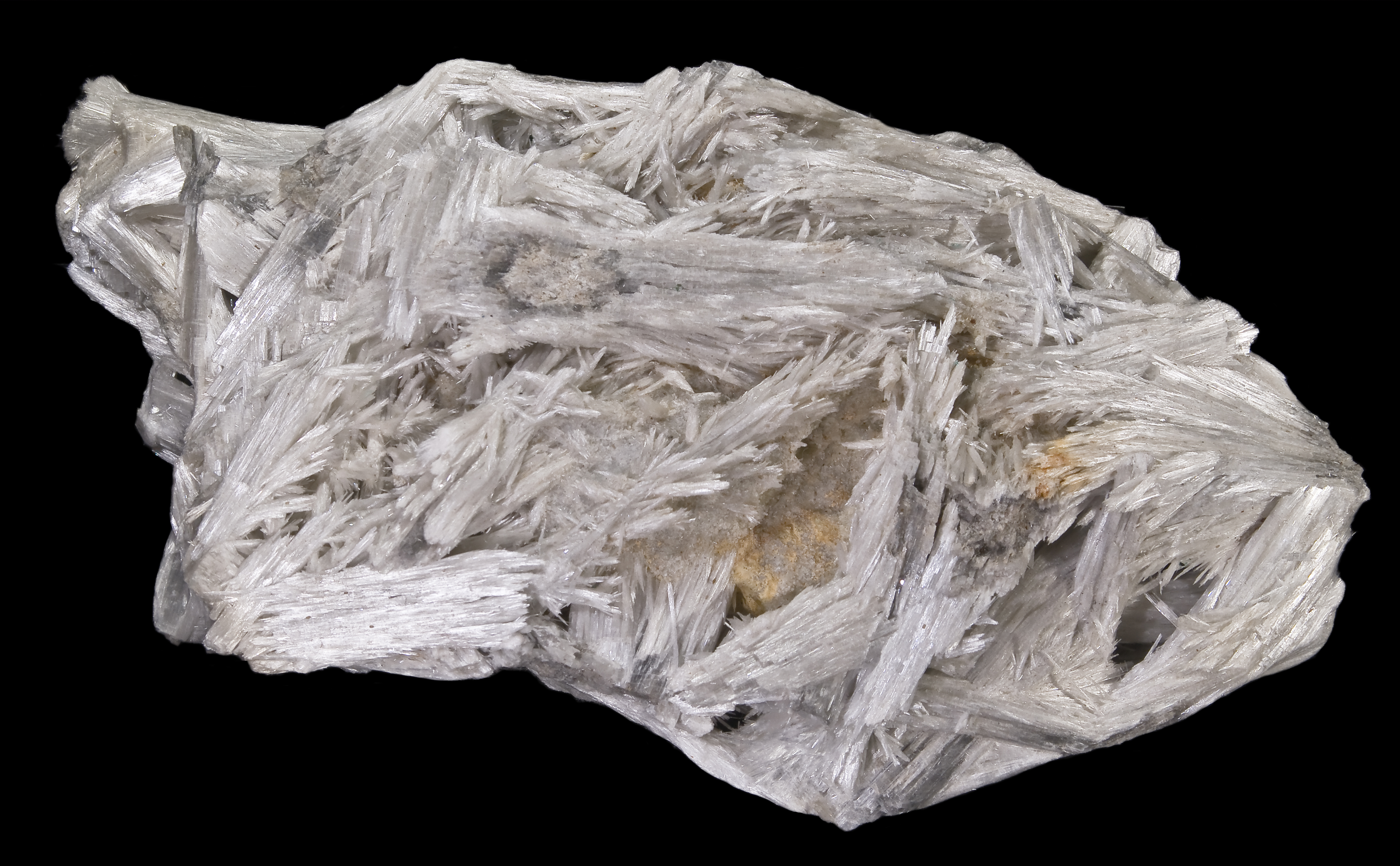 Tremolite Locality : Campolungo, Piumogna Valley, Leventina, Ticino (Tessin), Switzerland -TOPOTYPE Size : 14x6.4cm